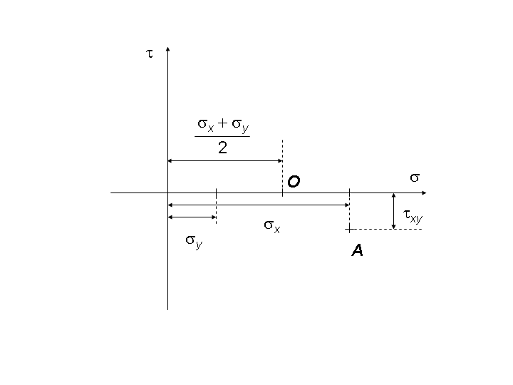 Construction of Mohr's circle, stage 1